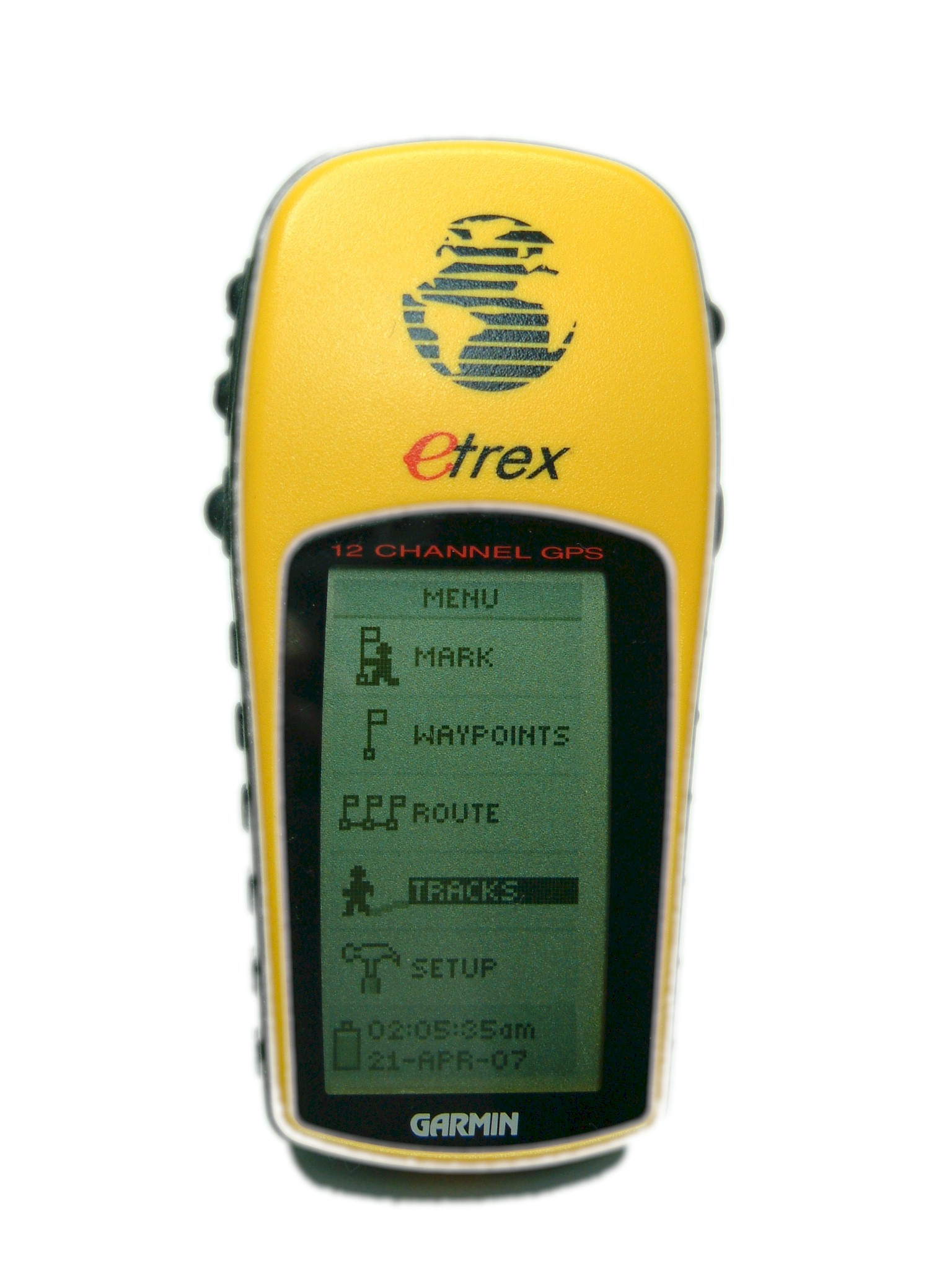 Garmin eTrex Yellow GPS showing menu system